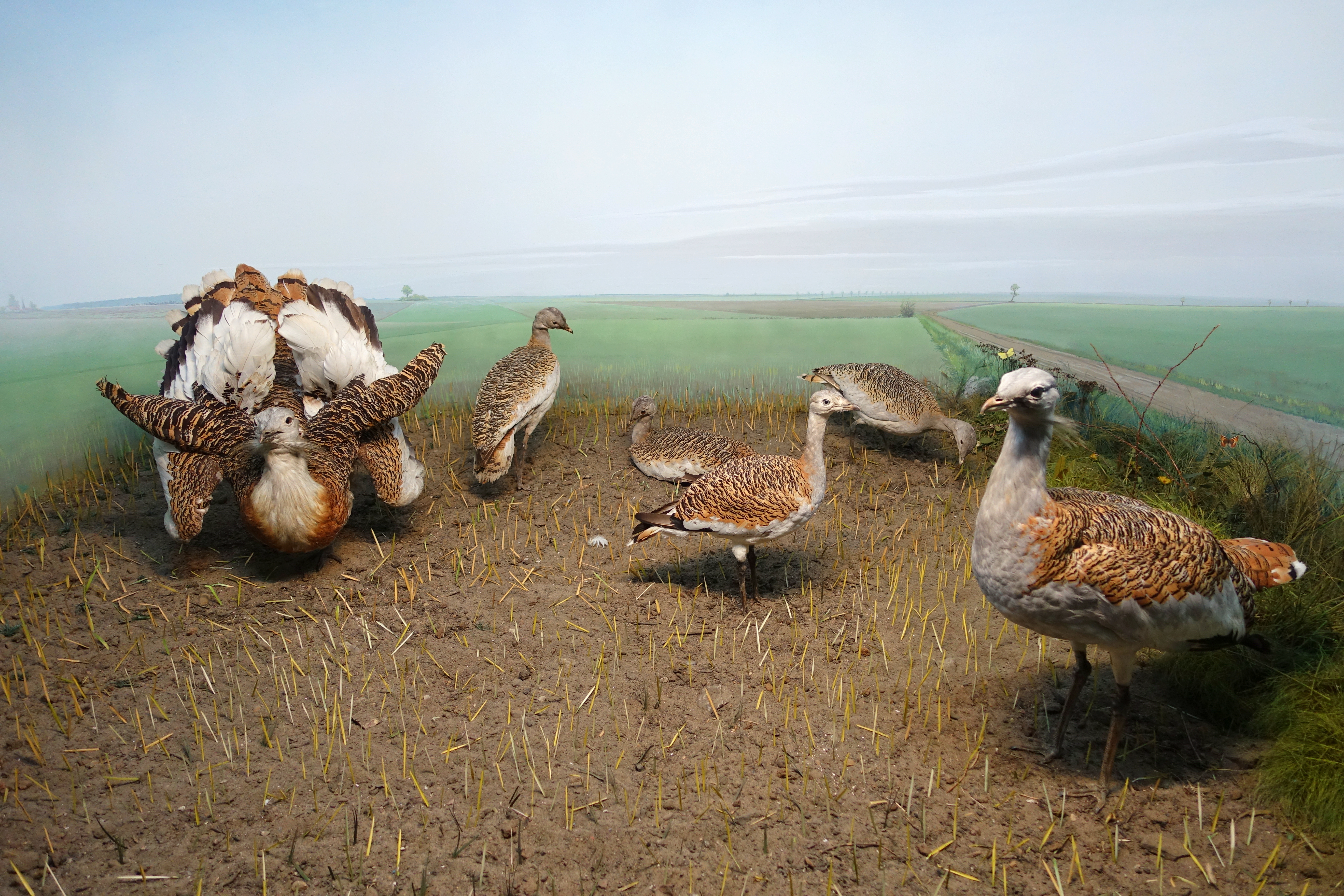 Diorama in the Naturhistorisches Museum, Braunschweig, Germany.